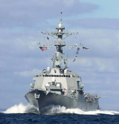 USS Winston S. Churchill (DDG-81); 010913-N-6967M-506 At sea with USS Winston S. Churchill (DDG 81) Sep. 13, 2001 -- USS Winston S. Churchill makes a high-speed run in the English Channel. The destroyer, based in Norfolk, Va., is making its first deployment to the United Kingdom and Norway. The Churchill is the only U.S. Navy vessel in active service named after a foreign dignitary. The ship is named in honor of Sir Winston Spencer Leonard Churchill (1874-1965), best known for his courageous leadership as the British Prime Minister during World War II. U.S. Navy photo by Photographer’s Mate 2nd Class Shane T. McCoy. (RELEASED)